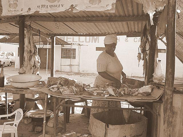 Woman Vender {Additional description by User:JackyR) Used by Macvivo to illustrate Mbizo Township.